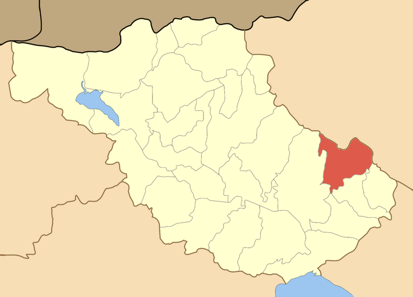 Locator map of Alistratis municipality in Serres perfecture in Greece.